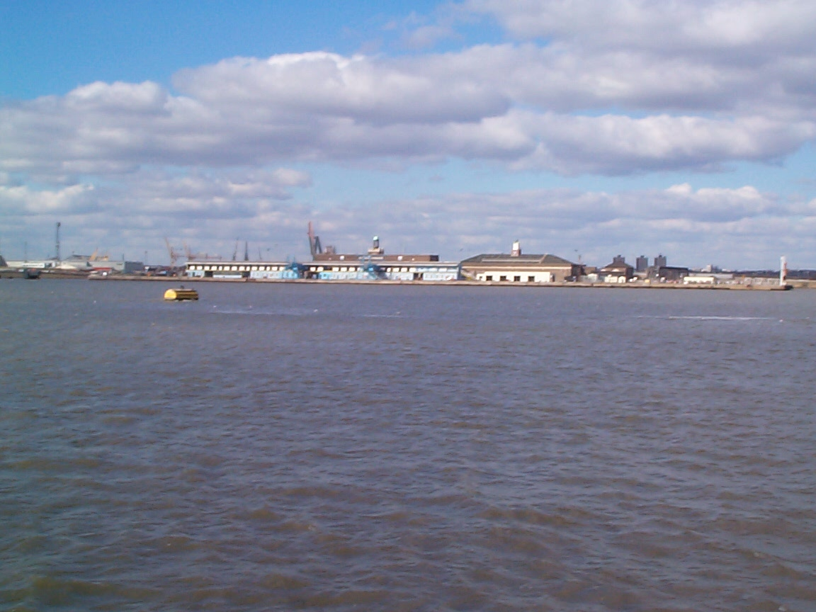 The ferry landing stage and riverfront at Tilbury, 2001